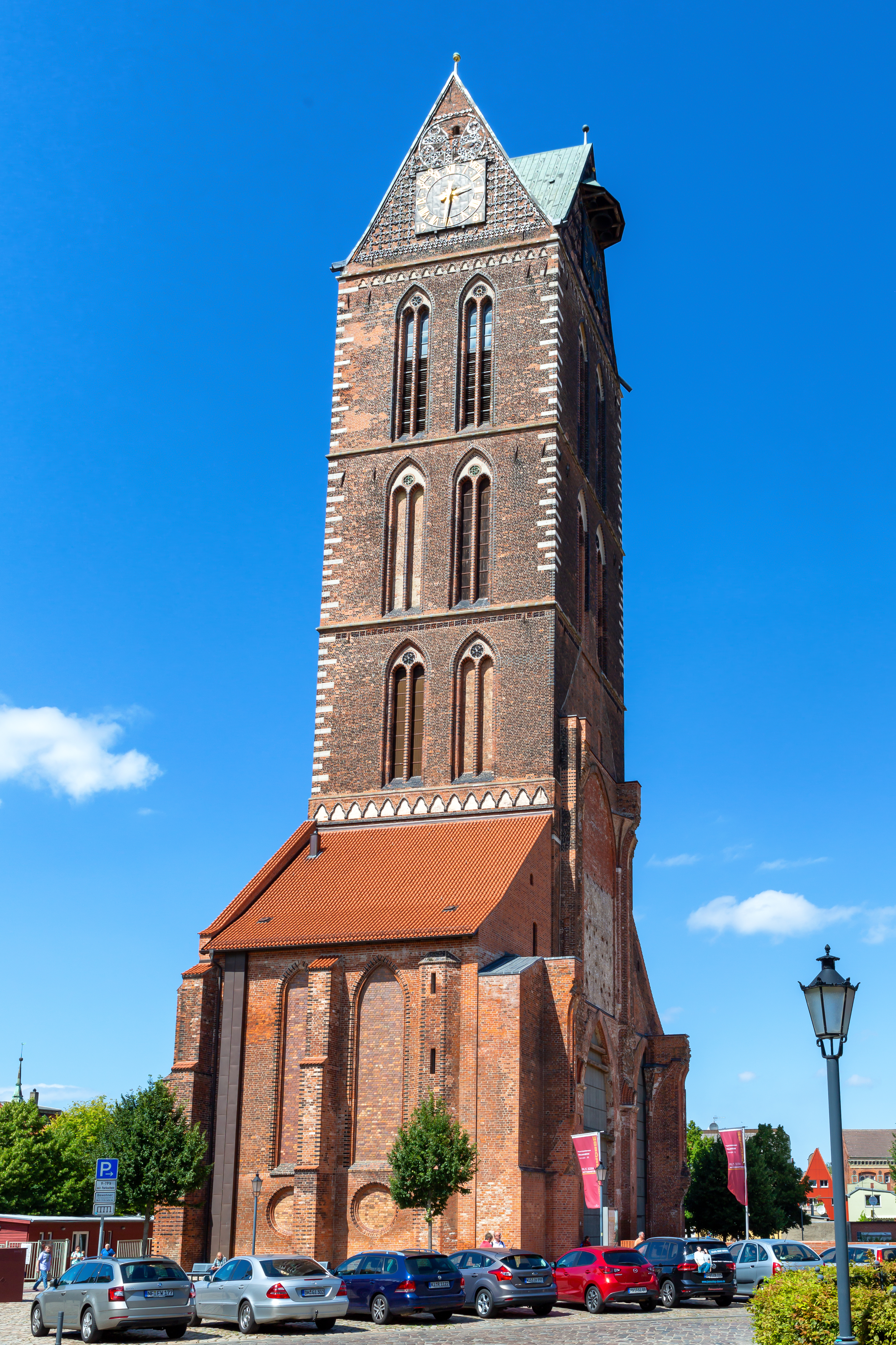 Marienchurch, Wismar, seen from South